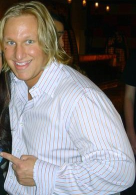 A picture of ray gordy I took at a smackdown meet and greet in Cincinnati Ohio.